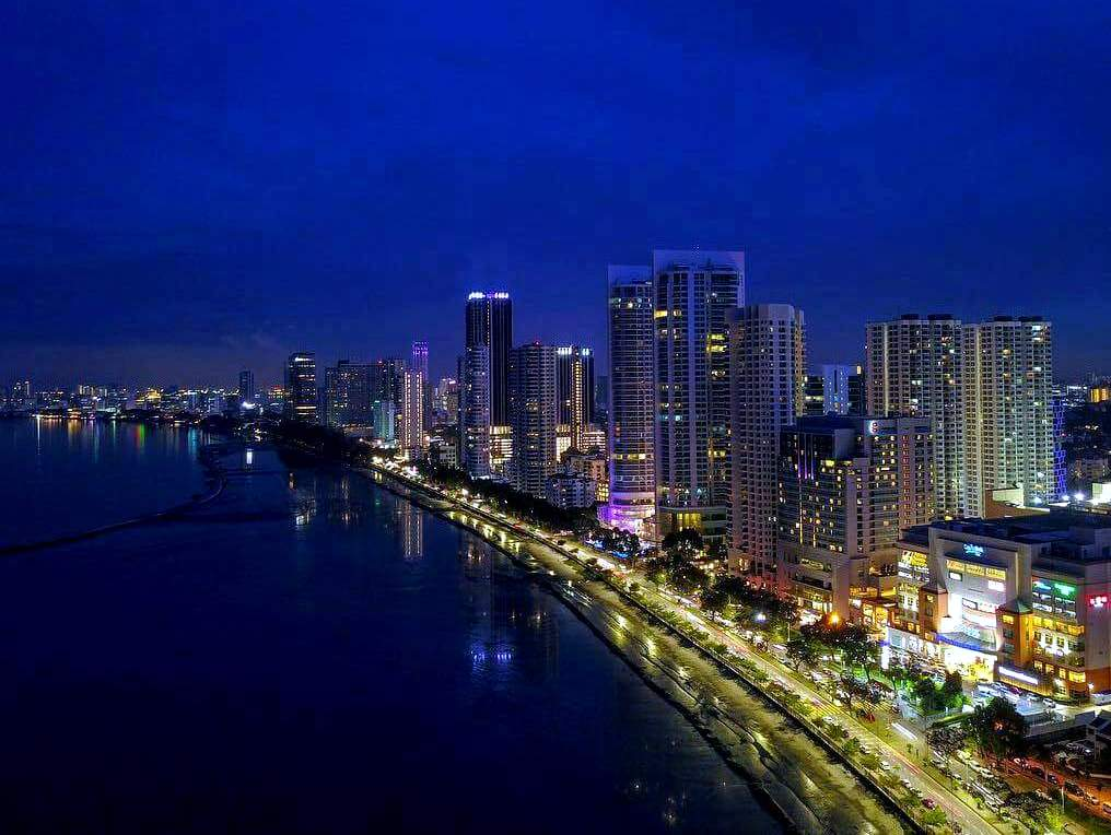 Dusk view of Gurney Drive in the city of George Town in Penang, Malaysia in January 2018